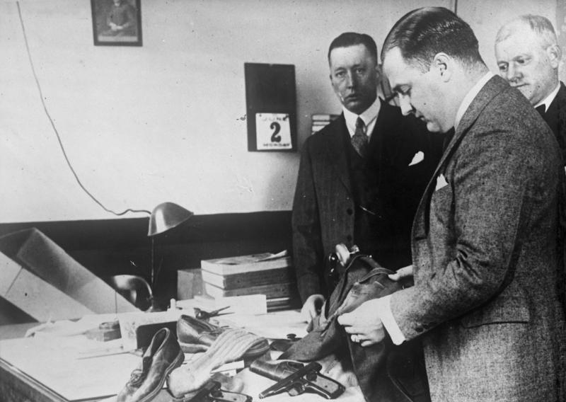 Chicagos Polizei im Kampf gegen das Verbrechertum! Aus den Taschen eines im Kampf von der Polizei erschossenen Verbrechers geholtes Waffenarsenal Chicago police in the fight against criminality ! Brought from the pockets of the fight was shot by the police criminal arsenal